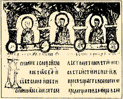 An image from the Miroslav Gospels